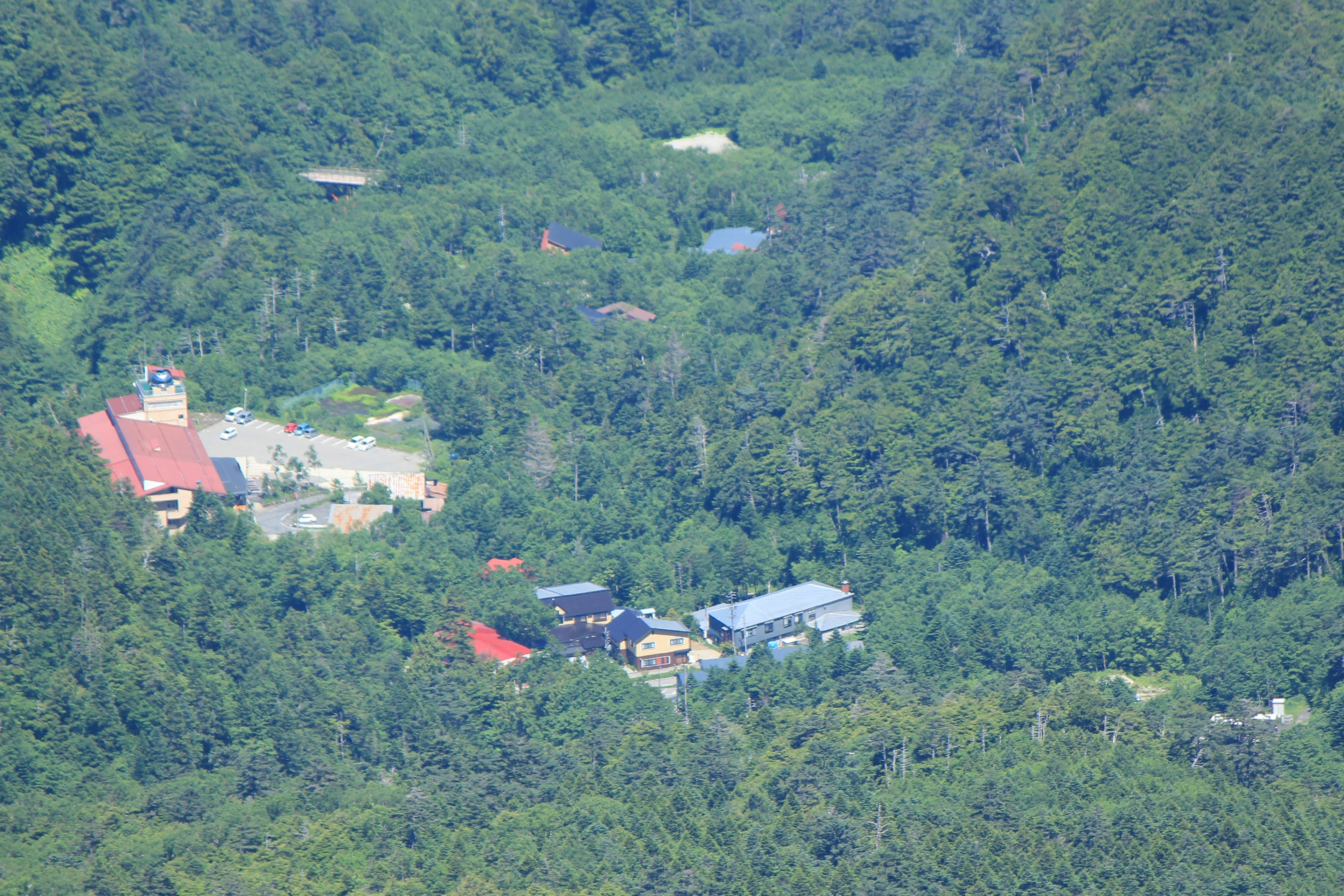 Nigorigo Onsen seen from Mount Marishiten of Mount Ontake in Gero, Gifu prefcture, Japan.